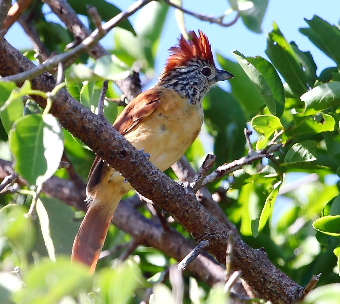 Caatinga antshrike (female) at Riachuelo, Rio Grande do Norte, Brazil